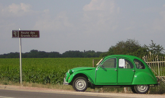 Route des Grand Crus runs from Dijon to Beaune throgh Côte de Nuits in Côte d'Or, the heart of Burgundy in France